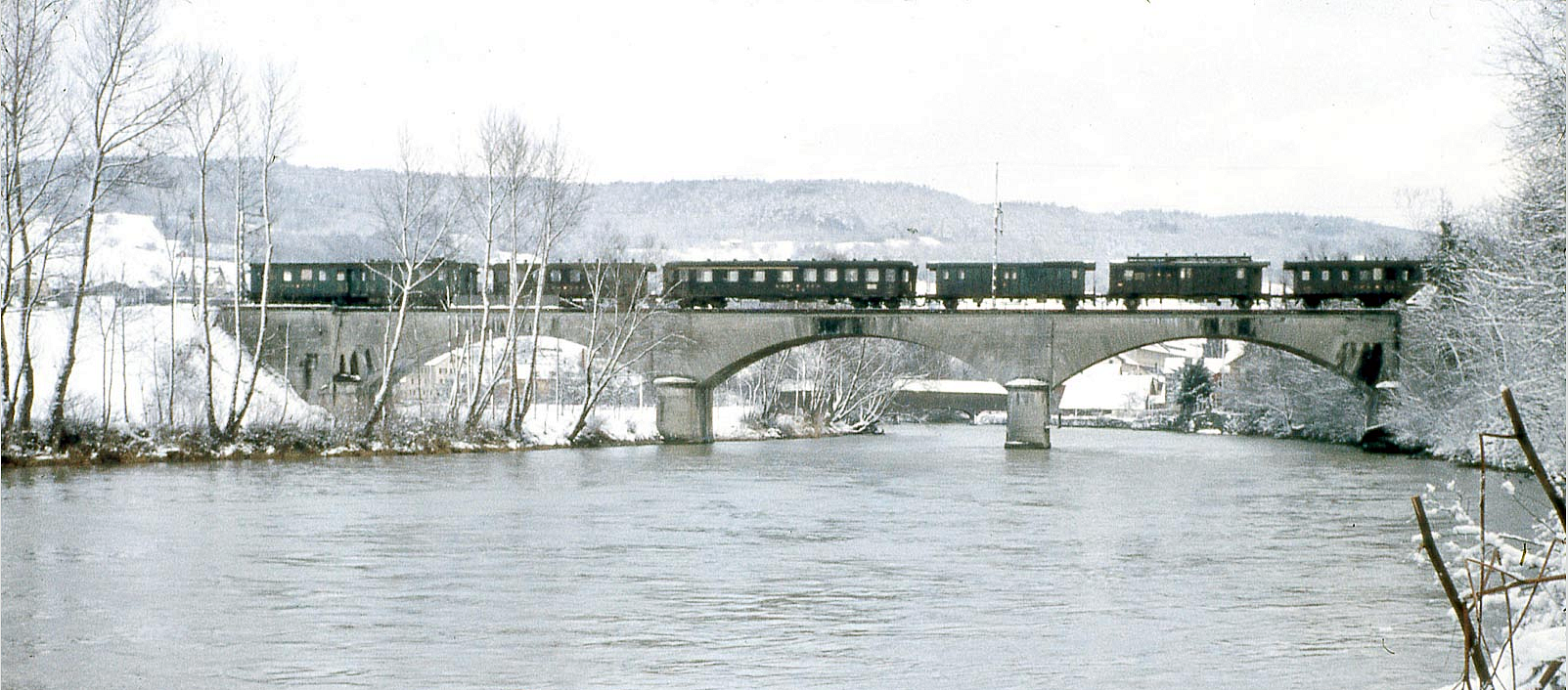 SBB Limmatbrücke Turgi 27.916 km, stone arch railway bridge of line 701 Turgi-Koblenz-Waldshut over the river Limmat in Switzerland, erected 1859 by Locher & Näf for Schweizerische Nordostbahn (=Swiss Northeastern Railway), one of the oldest still in service today